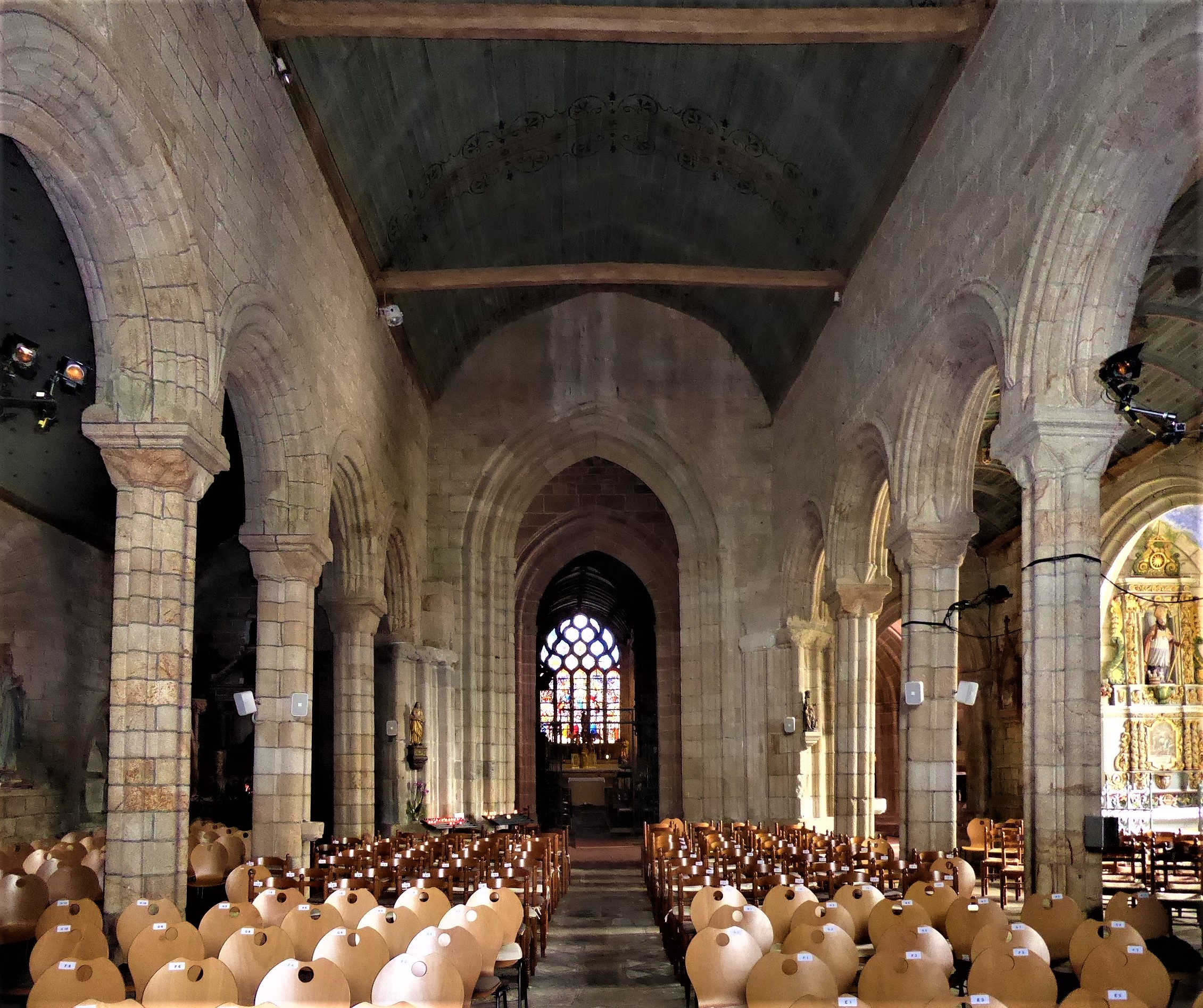 Interior of Collégiale Notre-Dame-de-Roscudon